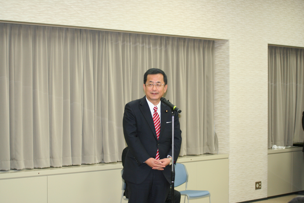 Kiyoshige Maekawa, Senior Vice-Minister of Cabinet Office, attended a ceremony in Tōkyō Metropolis on November 5, 2012. (For terms of use, see 金融庁ウェブサイト利用ルール： 金融庁.)